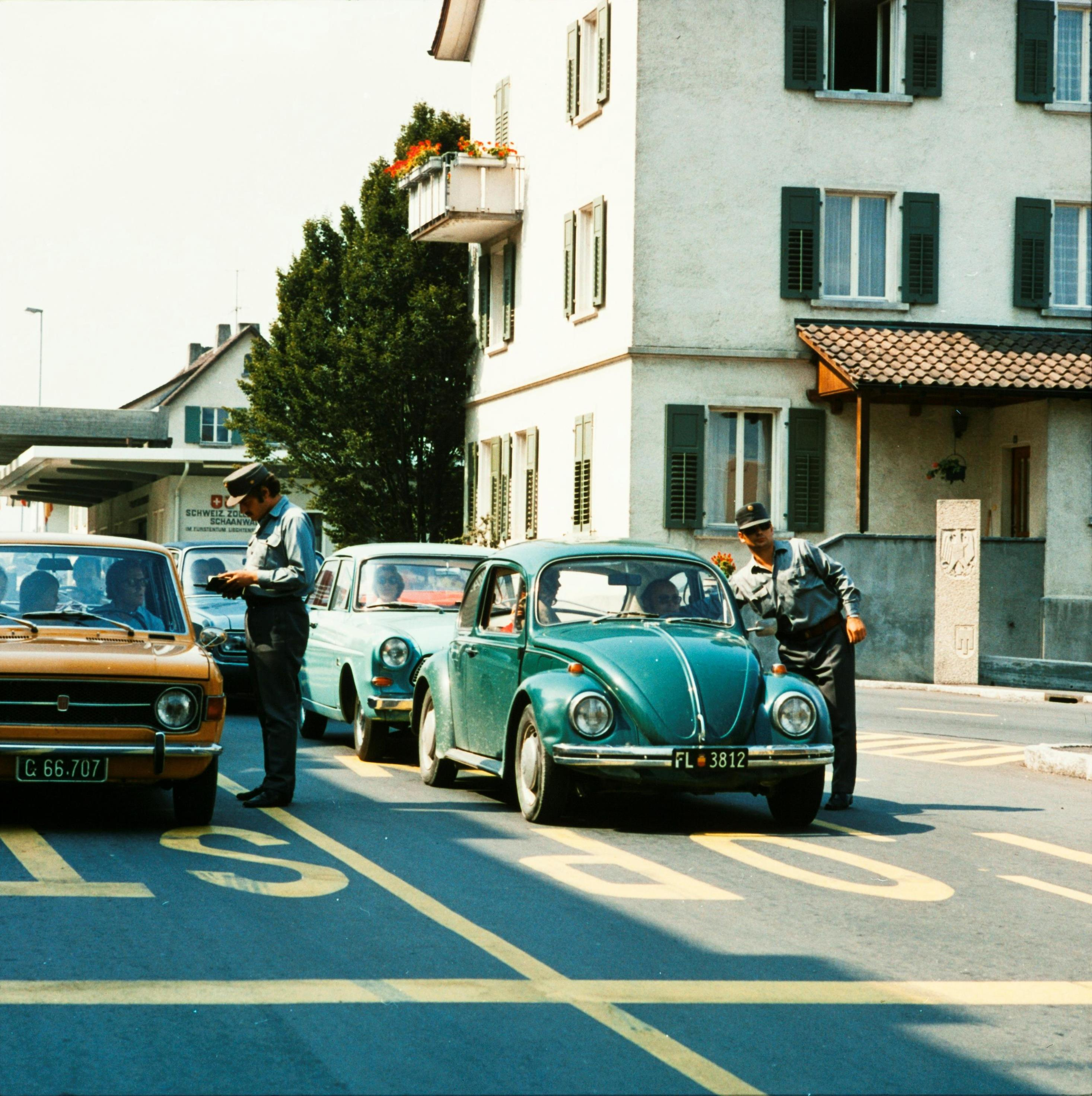 Border station Schaanwald/Tisis between the municipalities of Feldkirch (Austria) and Mauren (Liechtenstein). Border controls at the Austrian side of the border in August 1972.